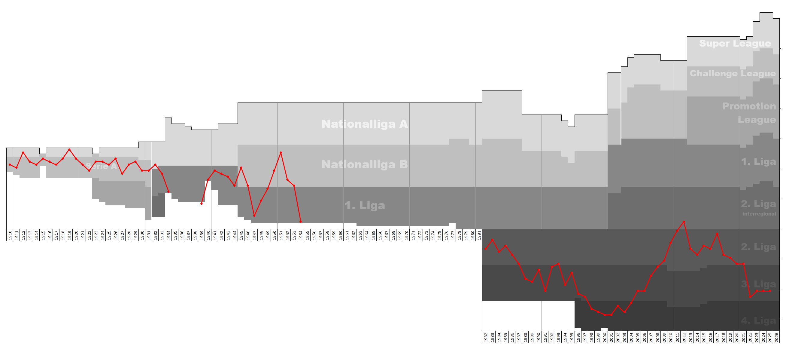 Chart of end-season table positions of FC Etoile-Sporting in the Swiss football league system. Data source: RSSSF, , football.ch